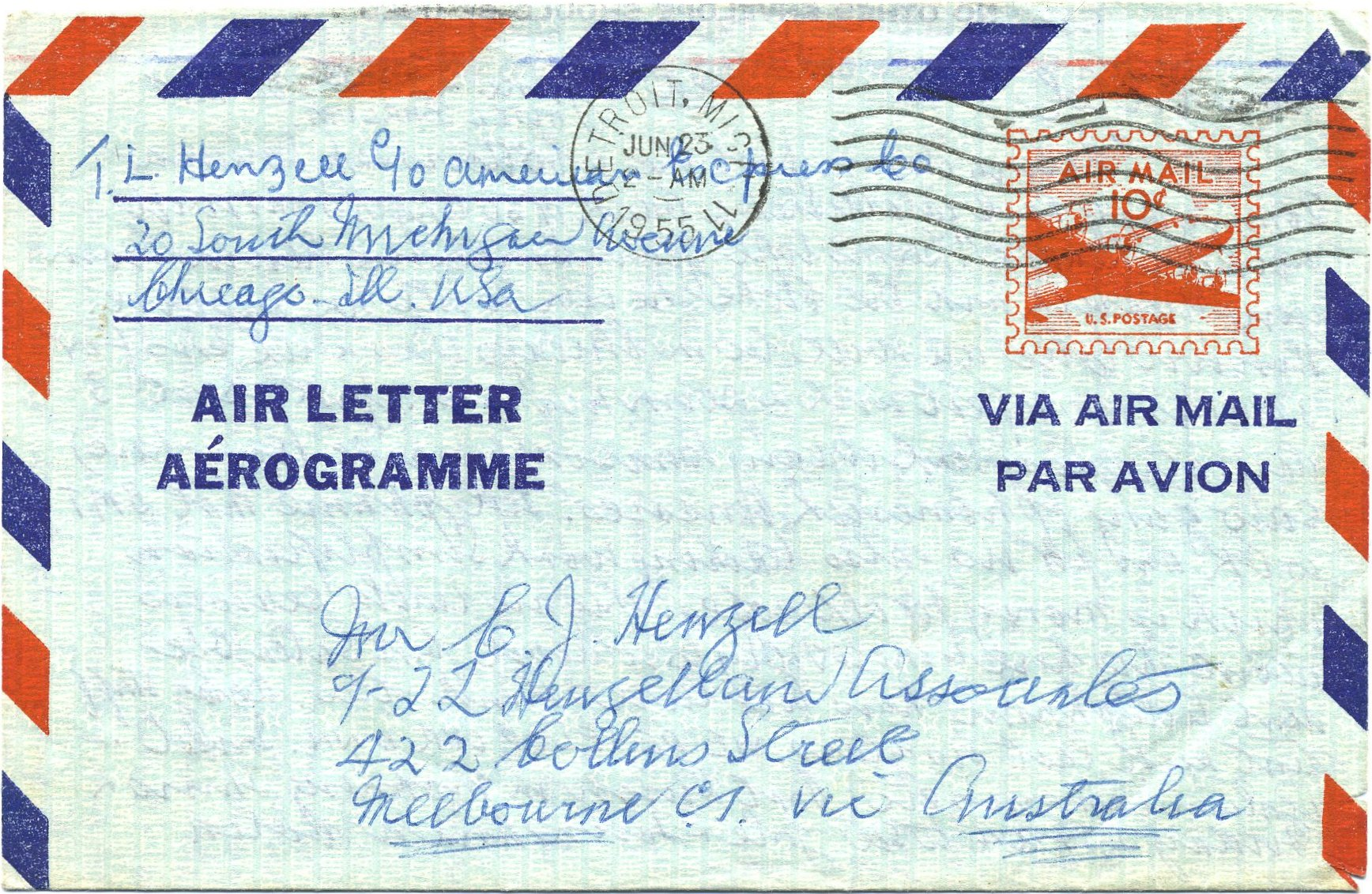 Third version of original US 1947 aerogram. This one has the word "AEROGRAMME" on it to comply with U.P.U. standards. Used from Detroit, Michigan to Melbourne, Australia on 23 June 1955. Back inscription: "Message must appear on inner side only - No tape or sticker may be attached".